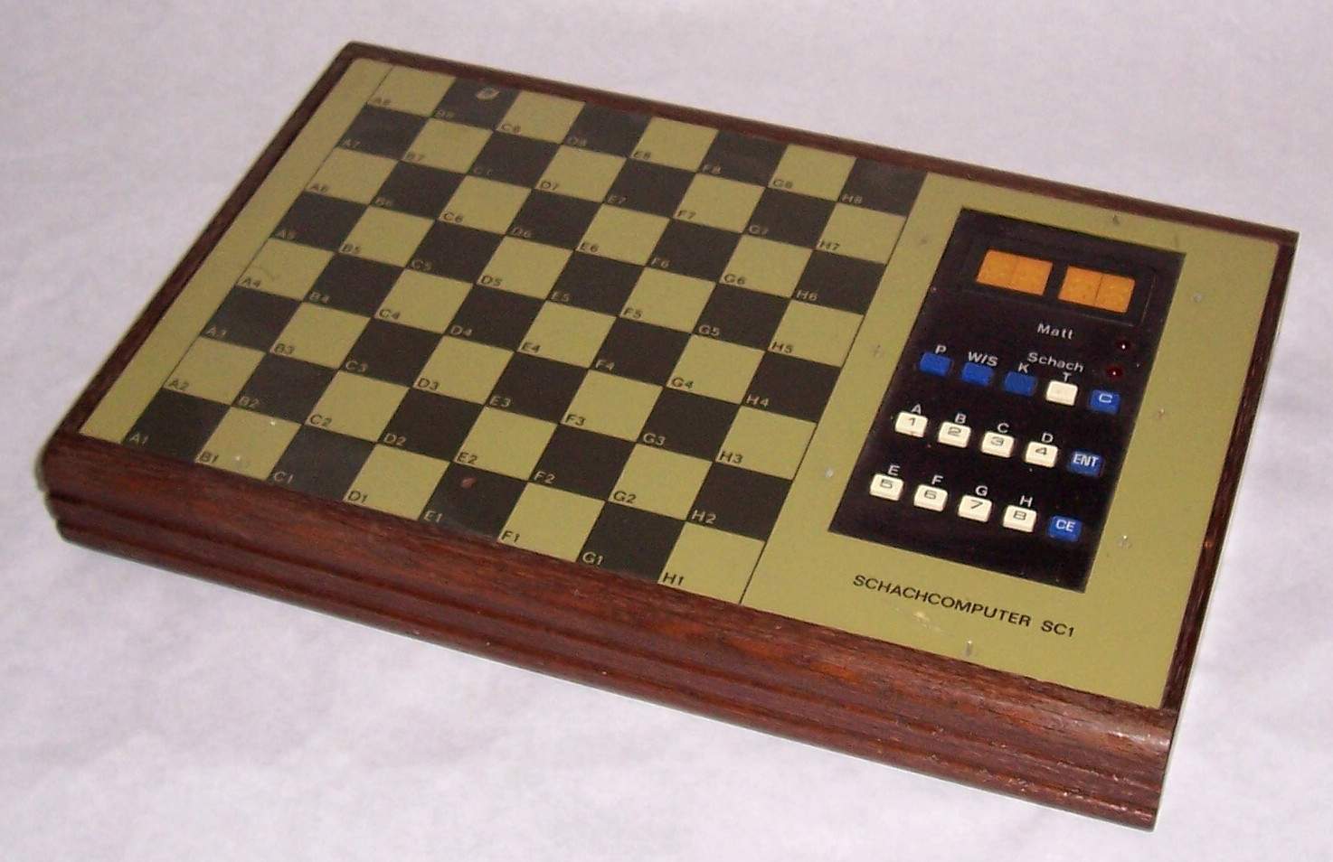 East German chess computer SC1